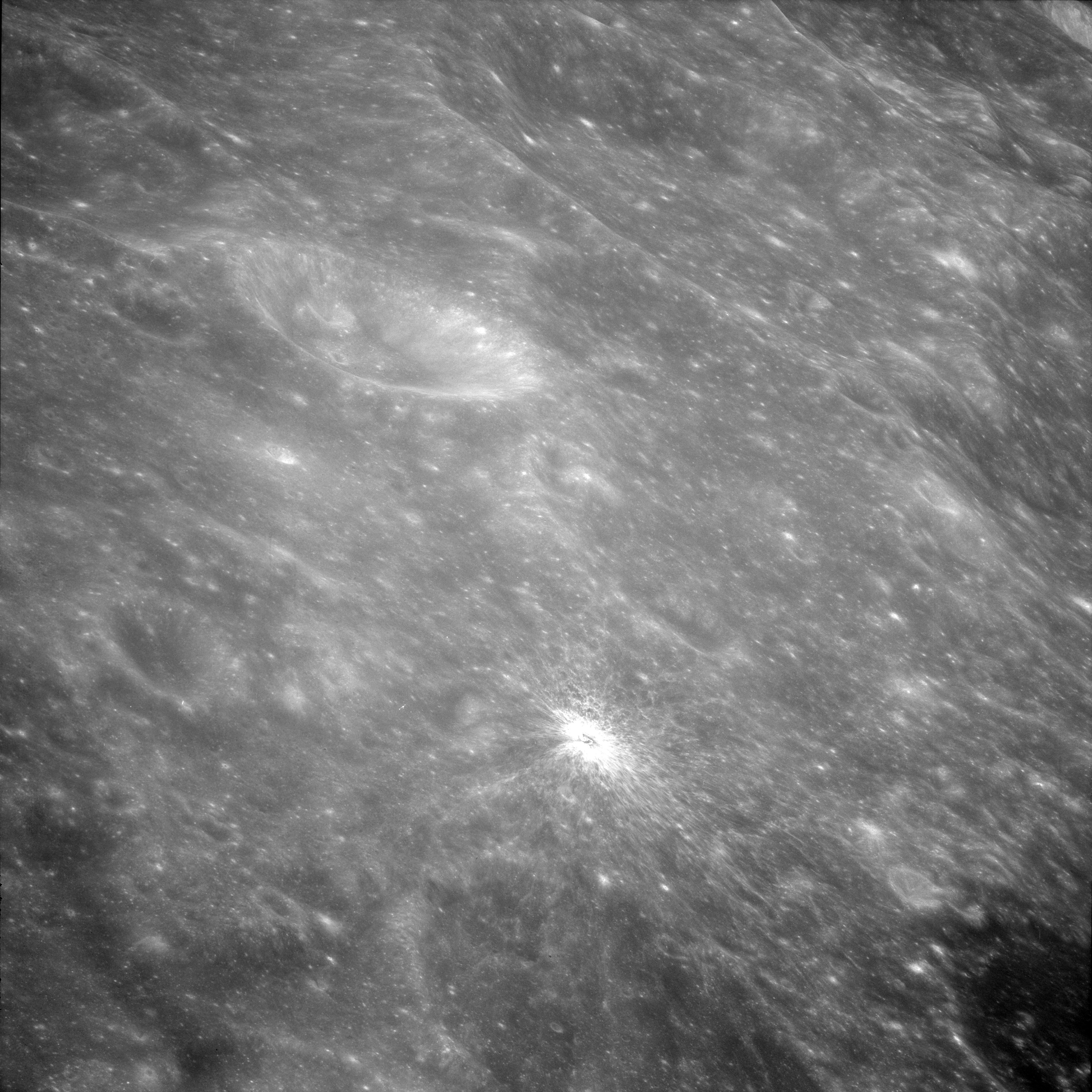 Oblique view of Hirayama T (upper left) and Hirayama Q (indistinct, upper right) craters, within Hirayama, facing south. Hume is in central foreground, and Swasey is in lower right corner. Small crater with bright ray system is unnamed.